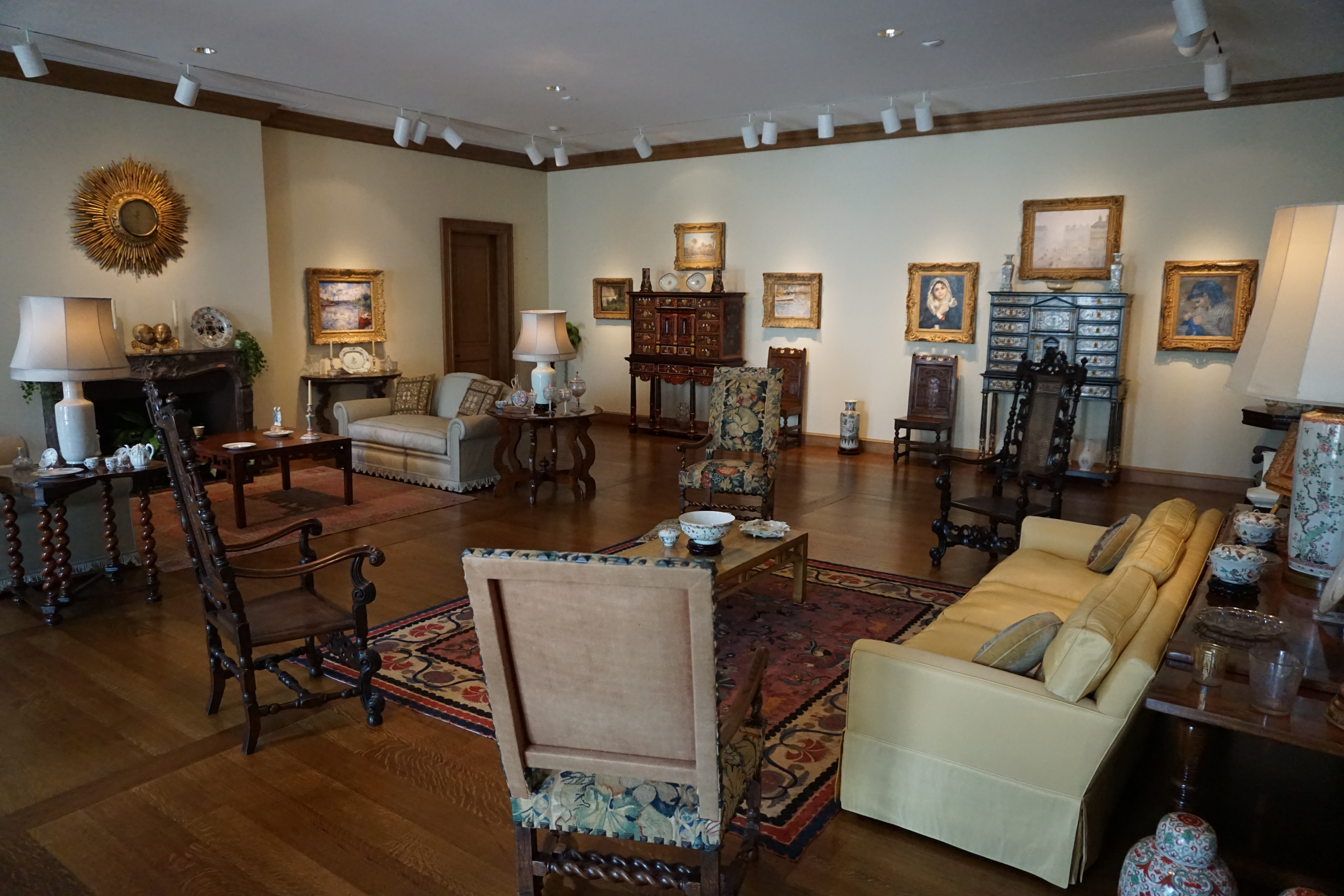 The Villa La Pausa salon replica at the Dallas Museum of Art in Dallas, Texas (United States).